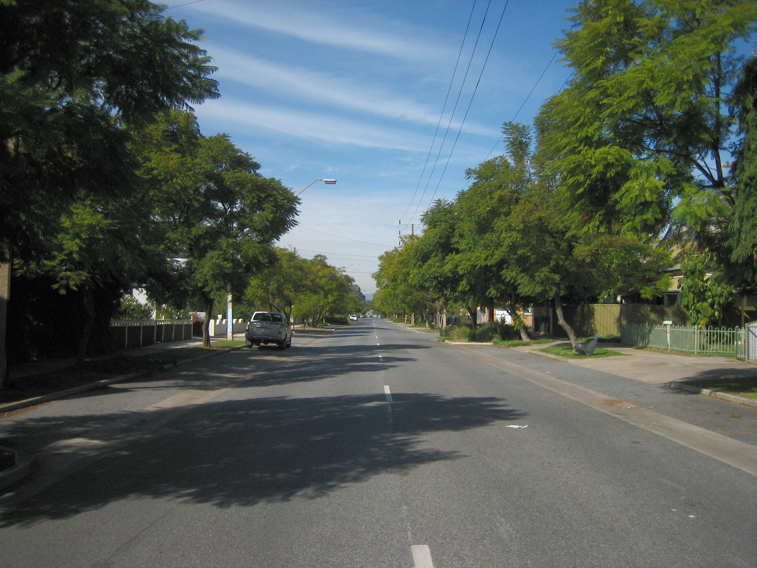 Looking down Torrens Road, Alberton (South Australia) towards Adelaide city.